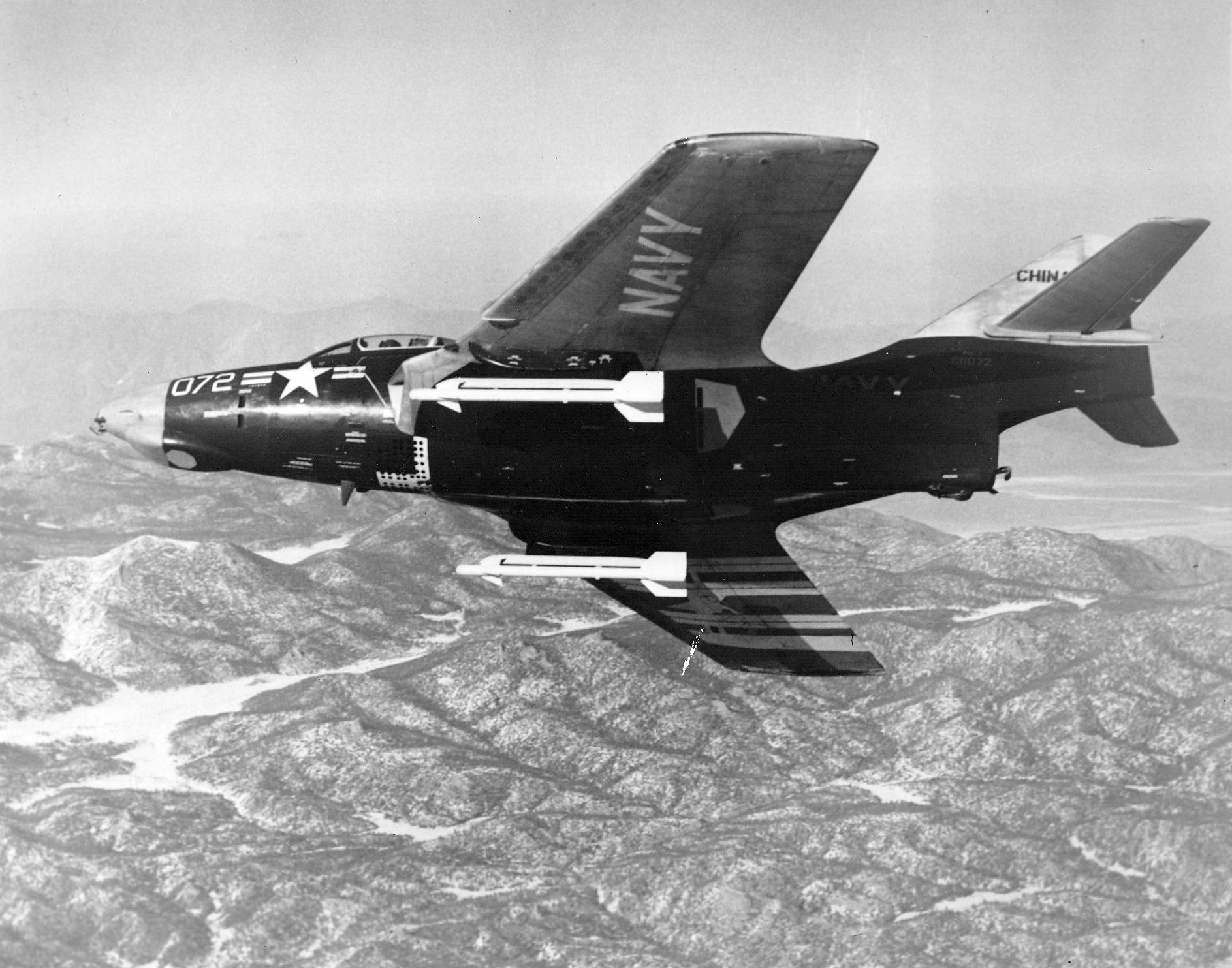 A U.S. Navy Grumman F9F-8 Cougar (BuNo 131072) during a test flight at Naval Ordnance Test Station (NOTS) China Lake, California (USA), 26 November 1956. It is armed with AIM-9B Sidewinder missiles.